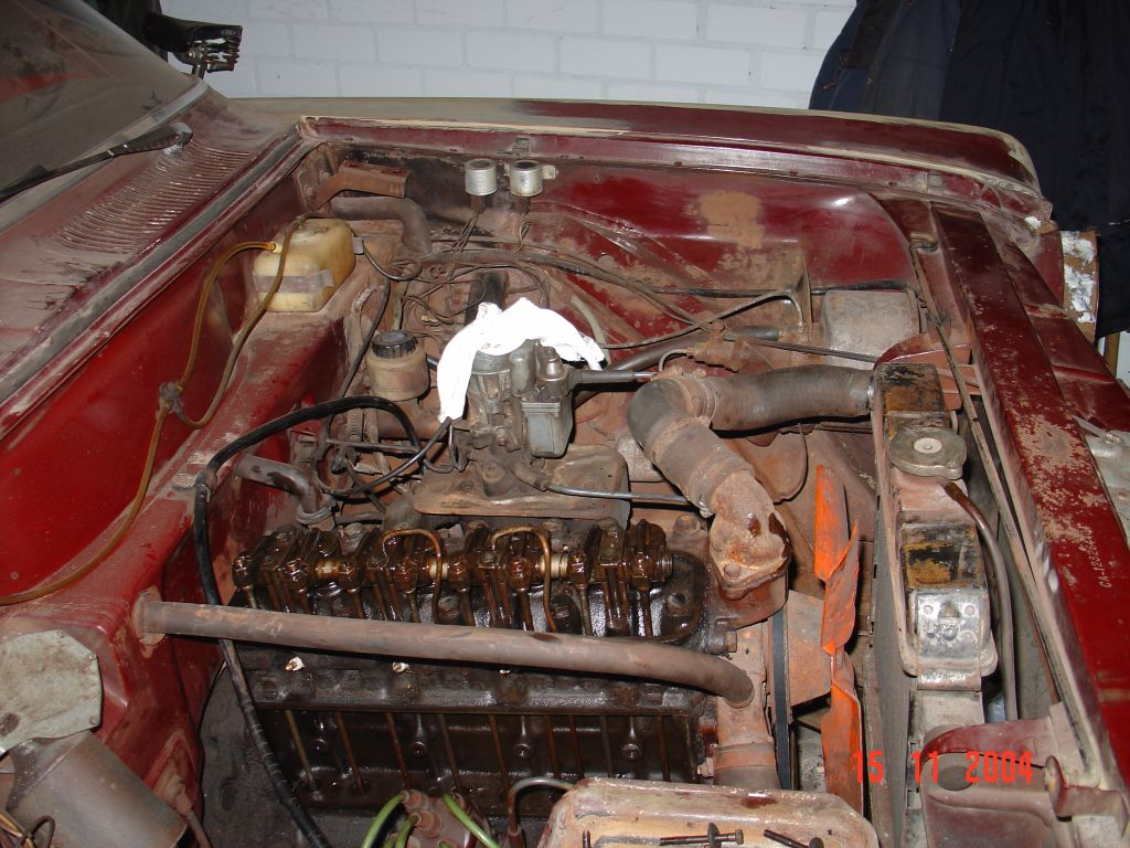 Opel Rekord A 1700S OHV engine of 67 HP / 49 kW (without valve cover)